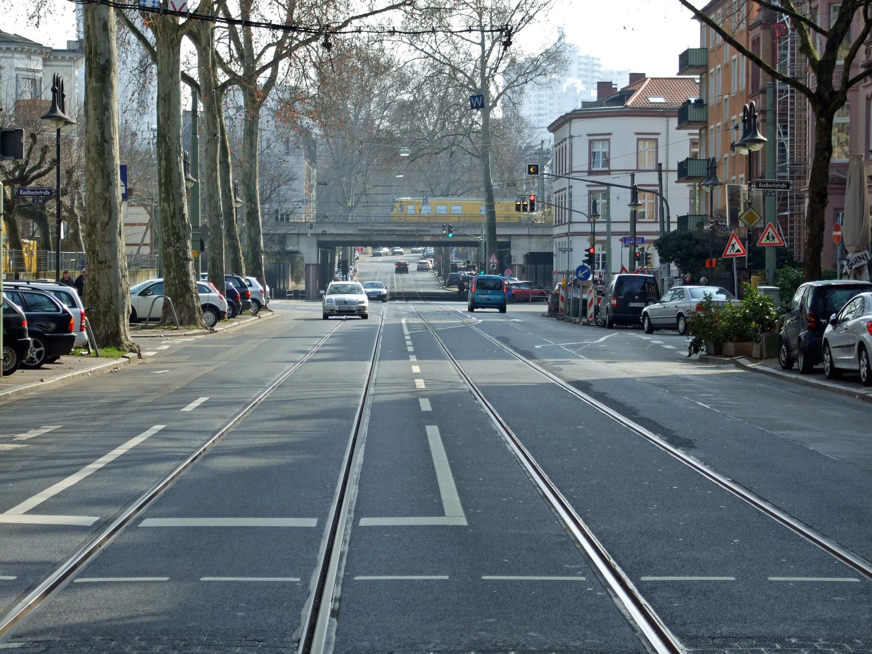 Schweizer Strasse at intersection Textor Strasse, view in south direction, in Frankfurt-Sachsenhausen.